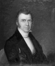 Portrait of Reuel Williams of Maine